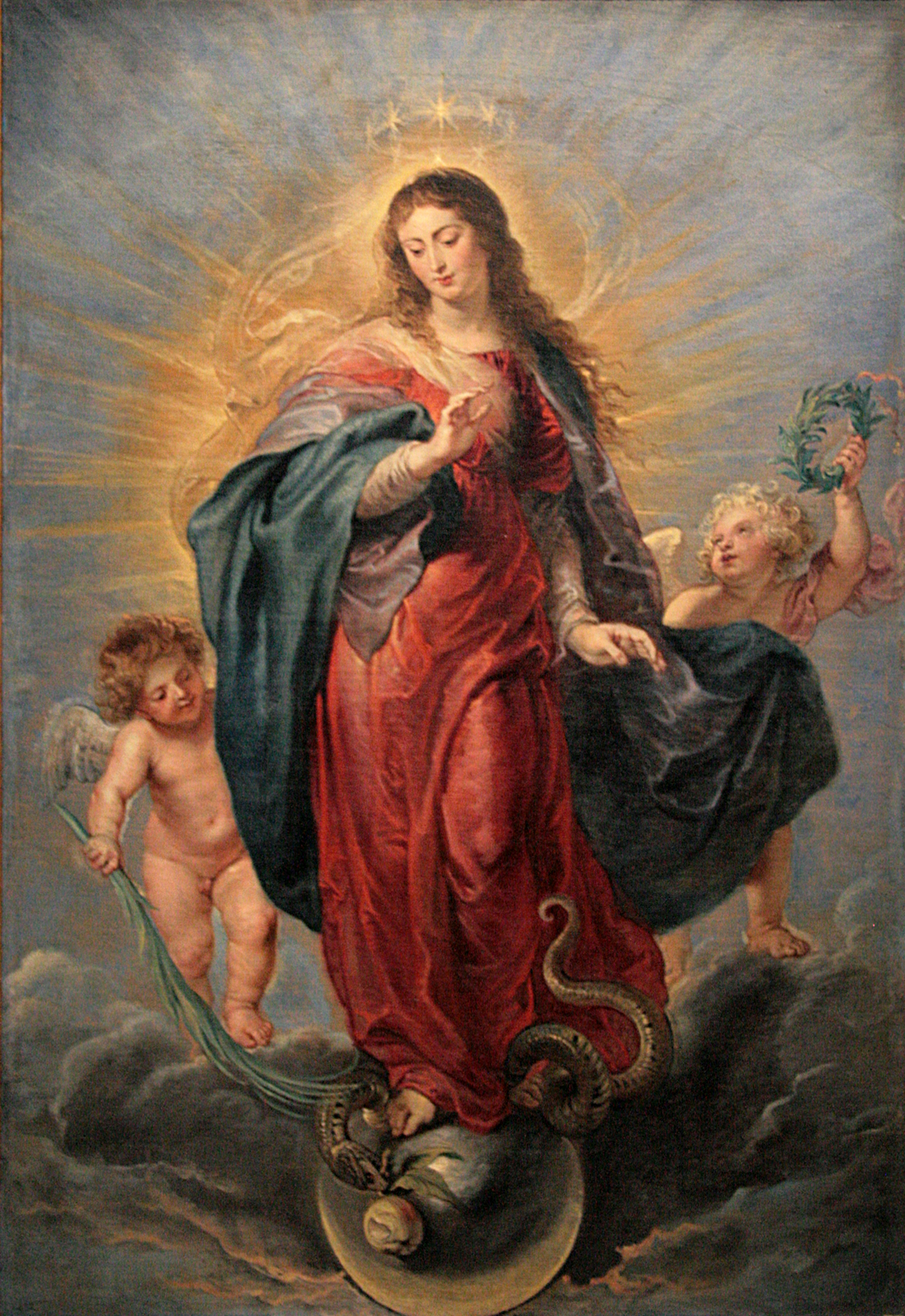 Work belonging to the Madrid Prado Museum photographed during the exhibition « Rubens et son Temps » (Rubens and His Times) at the Museum of Louvre-Lens.